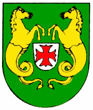 Coat of Arms of Schillingen